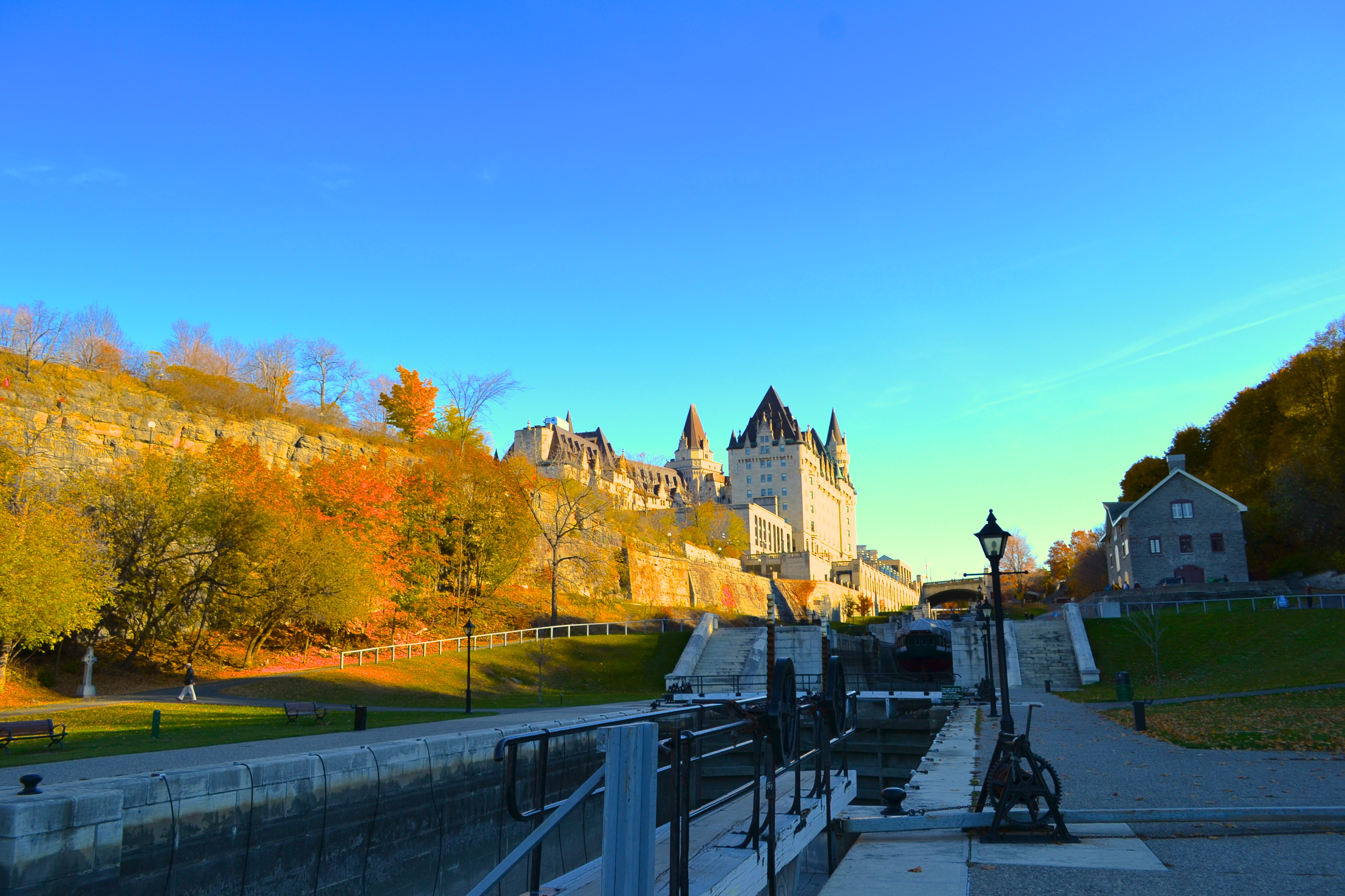 Commissariat Building on Right. Looking up from the bottom of the Ottawa Lockstation of the Rideau Canal. Chateau Laurier in Center rear.